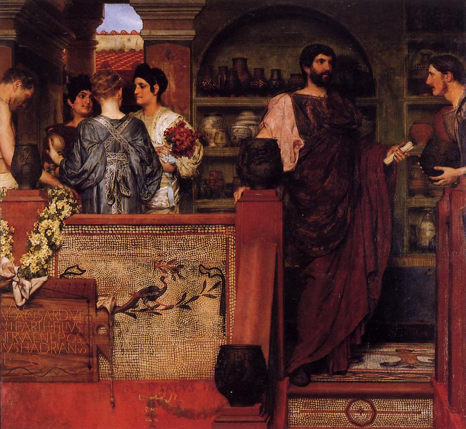 Hadrian Visiting a Romano-British Pottery Sir Lawrence Alma-Tadema - 1884 Stedelijk Museum (Netherlands) Painting - oil on canvas